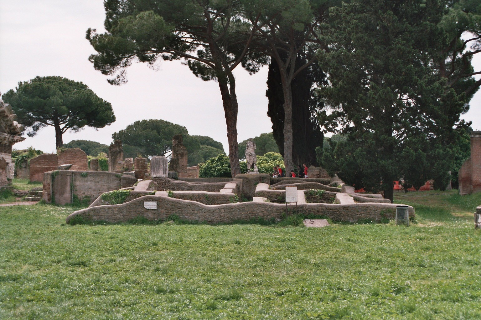 Temple of Roma and August (regio I), reign of Tiberius. Ostia Antica, Latium, Italy.